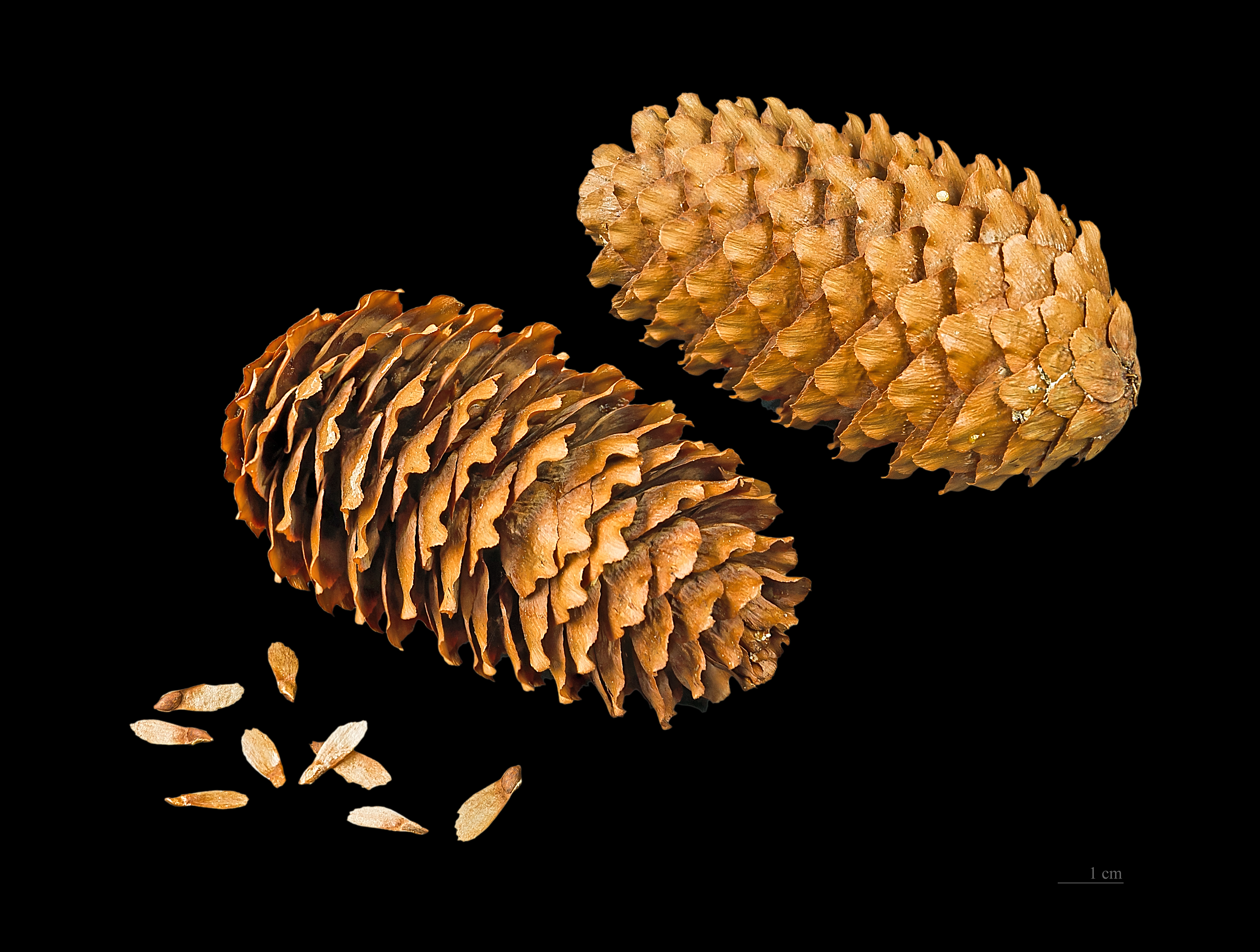 Cones and seeds of Likiang Spruce.